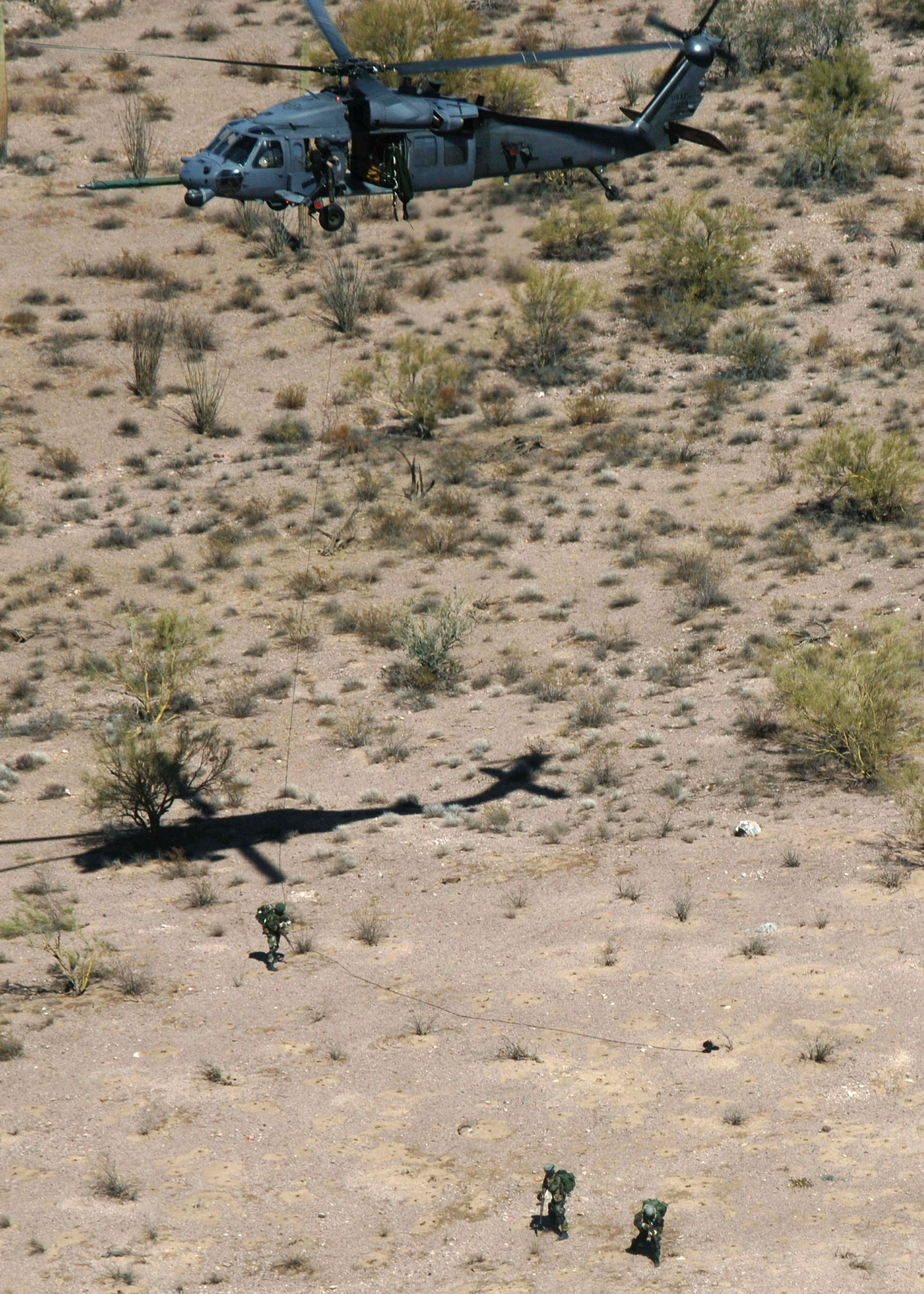 Pararescuemen from the 48th Rescue Squadron, repel down a HH-60 Pavehawk helicopter into a simulated hot zone, Monday, March 13, 2006. The 55th Rescue Squadron and pararescuemen assigned to the 48th Rescue Squadron were conducting alternate insertion/extraction training near Davis-Monthan Air Force Base, Ariz. (U.S Air Force photo/Senior Airman Christina D. Ponte)